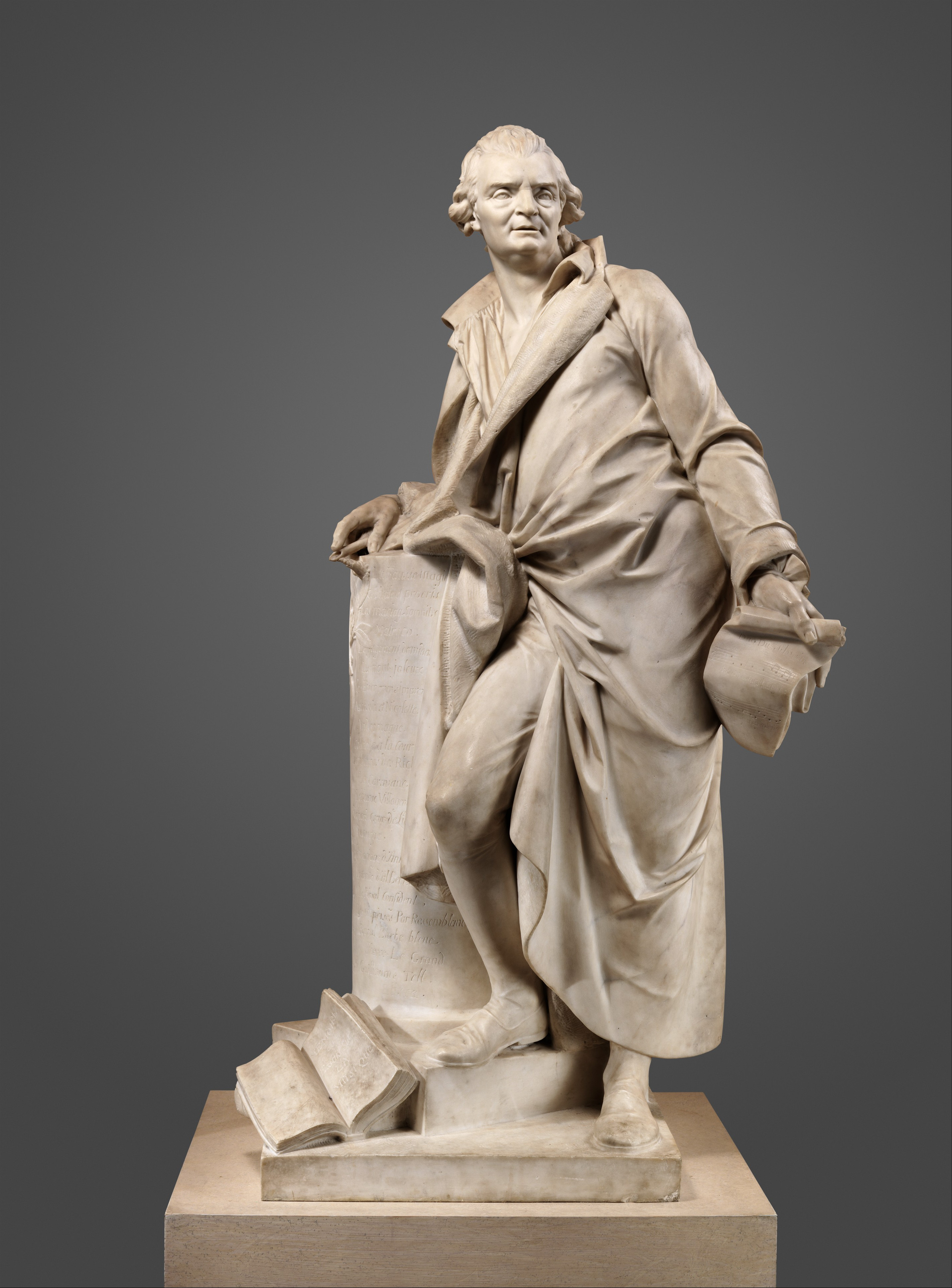 French, Paris; Statue; Sculpture